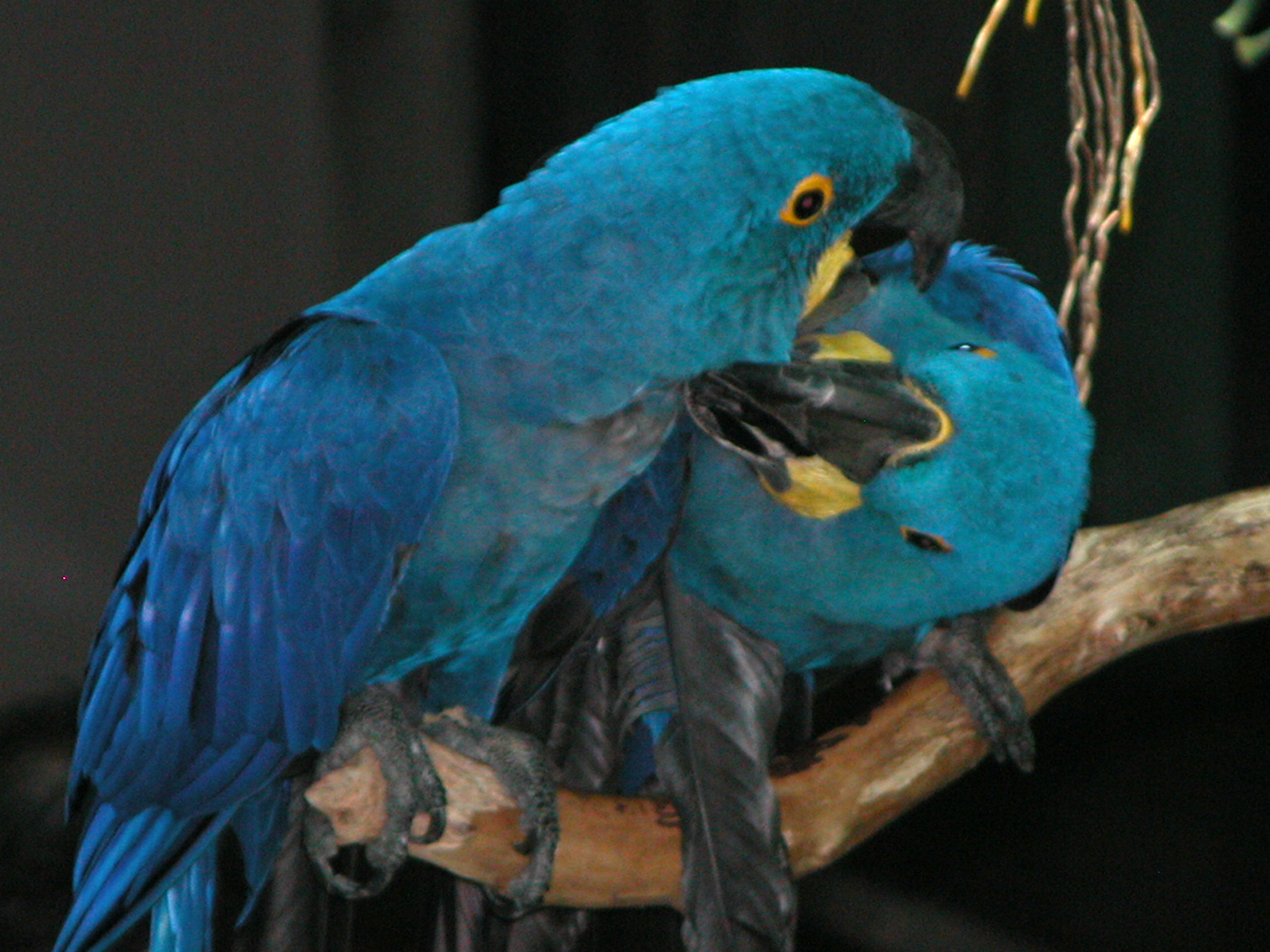 Hyacinth Macaws, Anodorhynchus hyacinthinus at the Aquarium of the Americas in New Orleans, Louisiana.